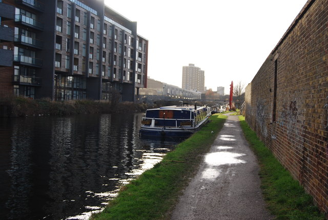 Hertford Union Canal, Hackney Wick